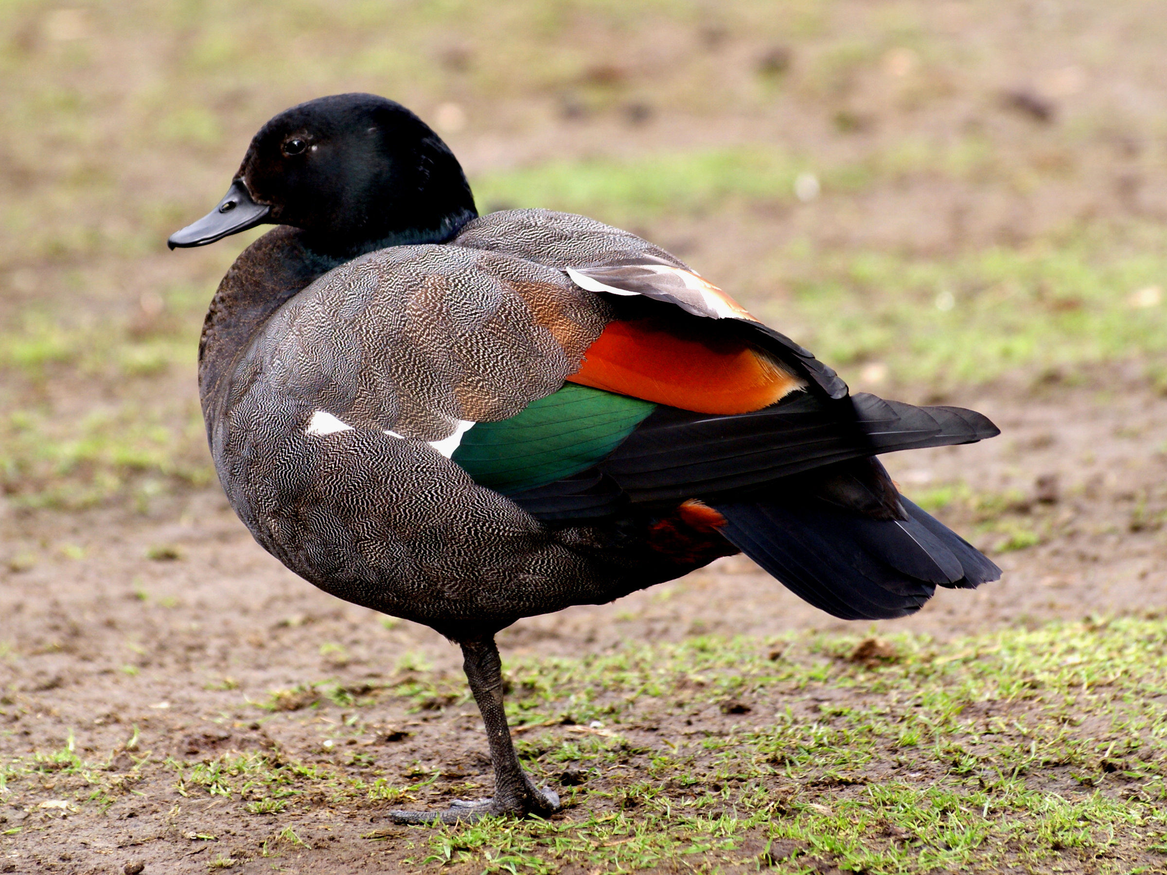 The paradise shelduck is New Zealand’s only shelduck, a worldwide group of large, often semi-terrestrial waterfowl that have goose-like features. Unusually for ducks, the female paradise shelduck is more eye-catching than the male; females have a pure white head and chestnut-coloured body, while males have a dark grey body and black head.